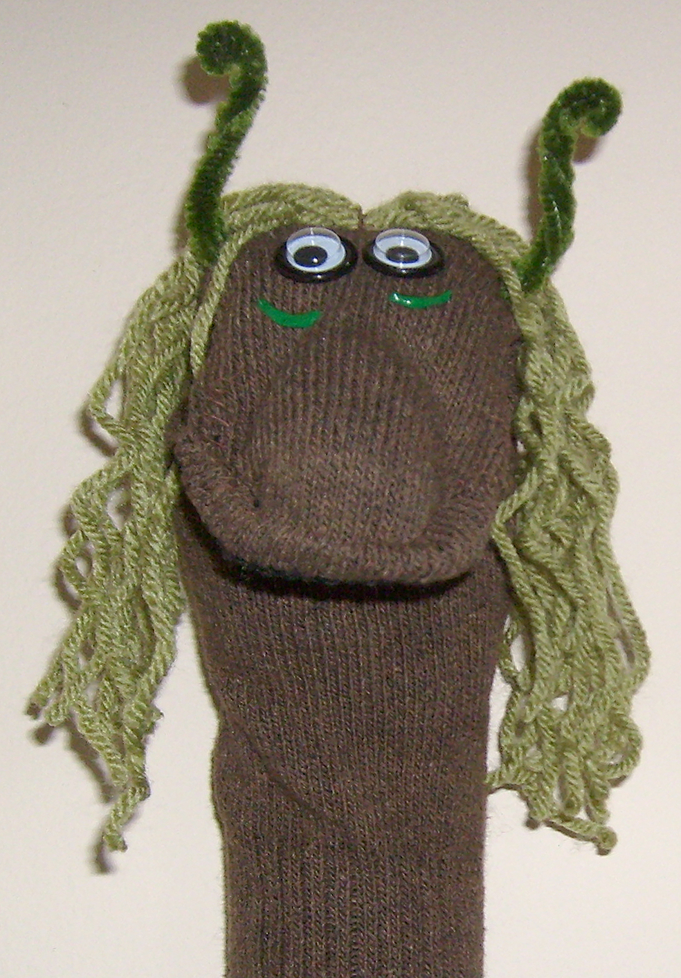 Troll sockpuppet made from a men's brown cotton sock, plastic button eyes with googly eyes, pipe cleaner ears, yarn hair, felt mouth, and fabric paint. Original design.